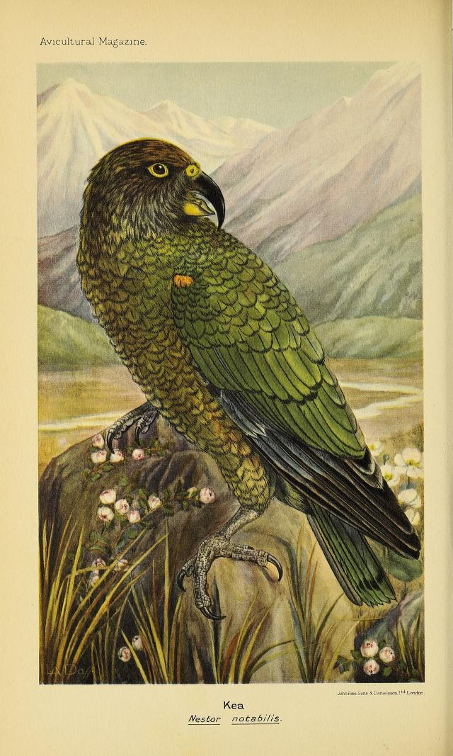 Kea by Lily Attey Daff from volume 1934 of The Avicultural magazine